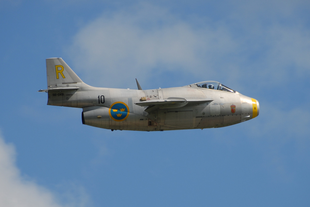 Saab 29 Tunnan (J 29) "Gul Rudolf" in flight at the Swedish Armed Forces' Airshow 2010.